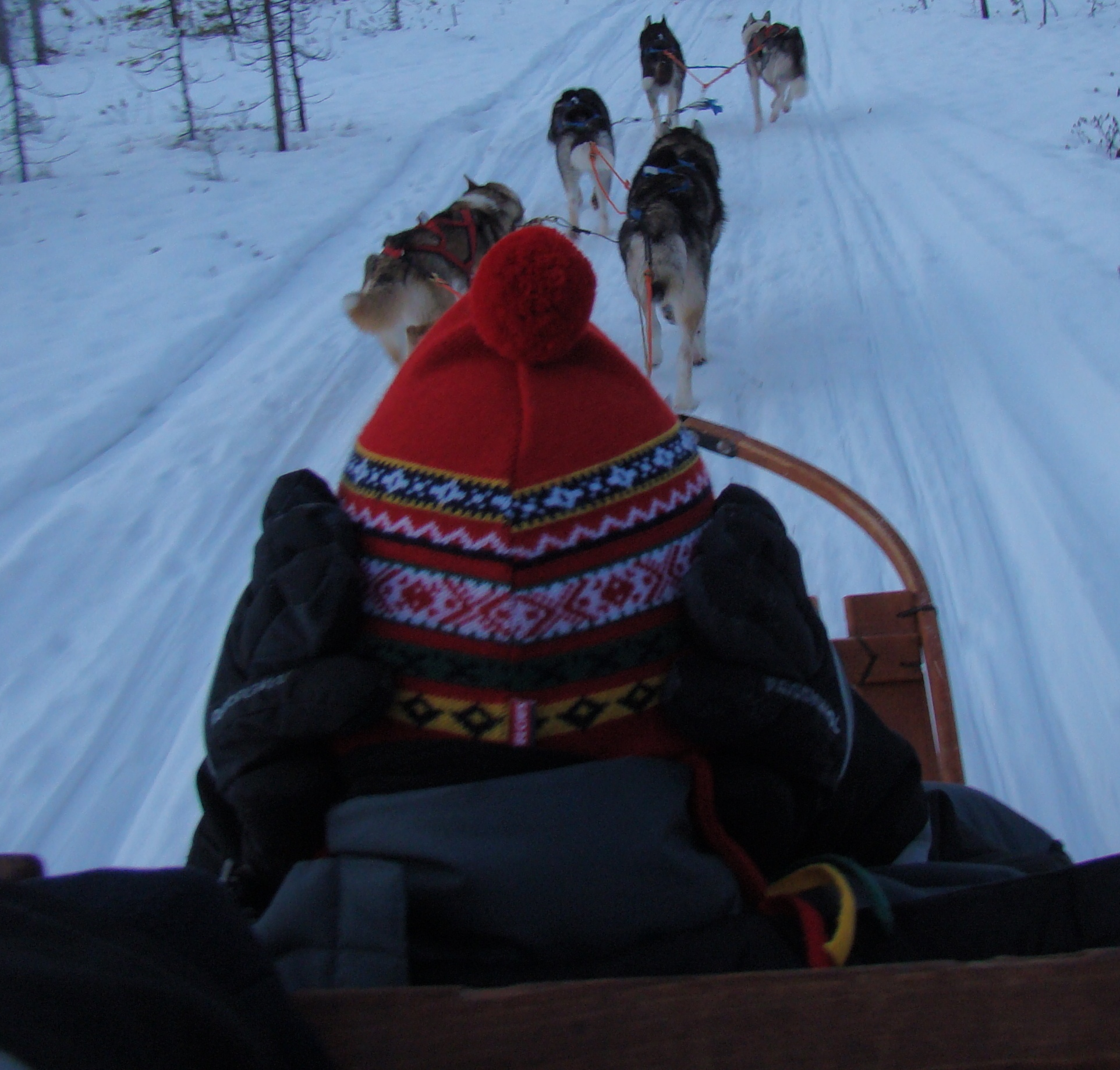 A boy on a sled pulled by huskies.